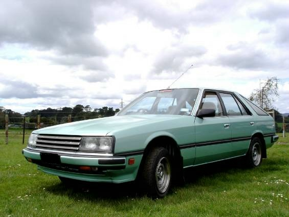 1982 R30 skyline hatch back.